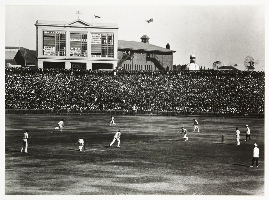 Creator: Unknown Date: 1930 Format: Photograph Collection: Kodak Collection at the National Media Museum Inventory no: 1990-5036/6012/0016 Blog: Happy Australia Day A snapshot photograph of the Fifth Test between England and Australia played at Sydney, Australia, taken by an unknown photographer in 1930. Crowds watch English batsmen Wooley and Hearne scoring a run. Originally a shooting term, the word 'snapshot' was first linked with photography in the late 1850s, when it was used to describe a photograph taken with a brief exposure. Over time, snapshot came to mean any amateur photograph taken with a simple camera. Snapshots are informal, personal records of everyday life and experiences.